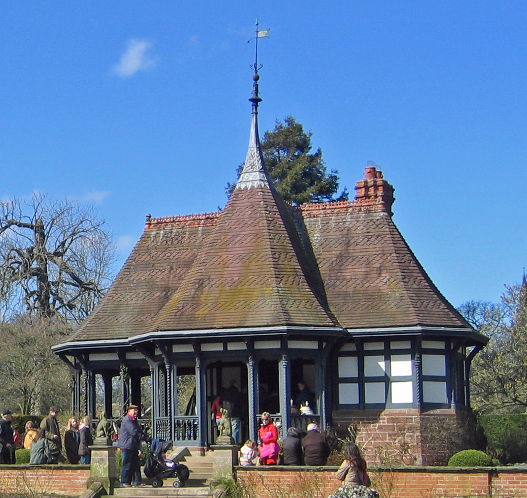 Photograph of the Tea House in the Dutch Garden on Eaton Hall, Cheshire, England, on a open day